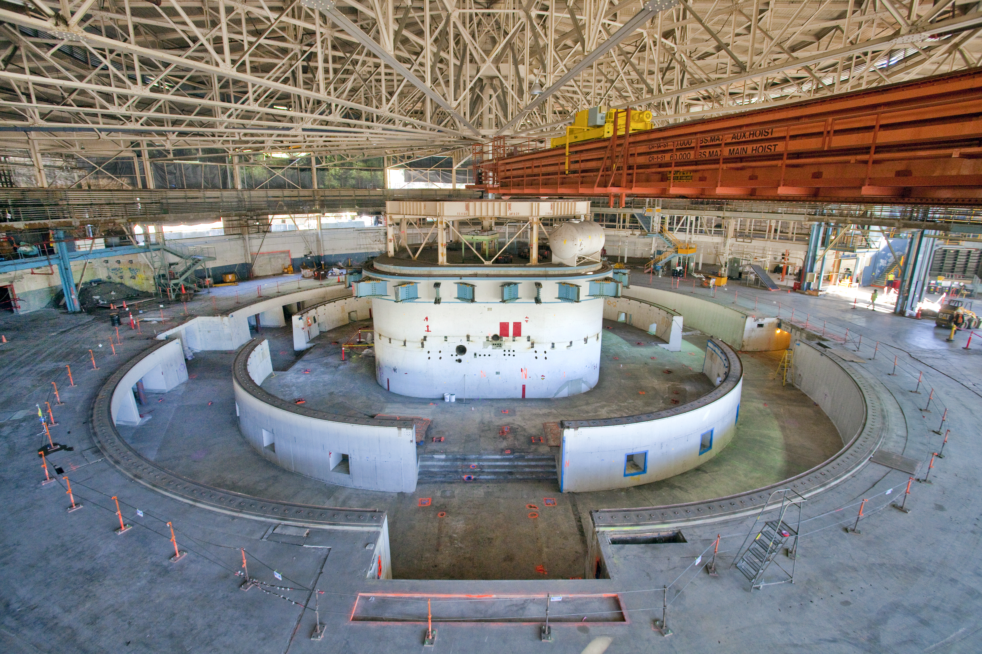 Bevatron in its final stripped down phase before building removal at Lawrence Berkeley National Laboratory. For more information or additional images, please contact 202-586-5251.